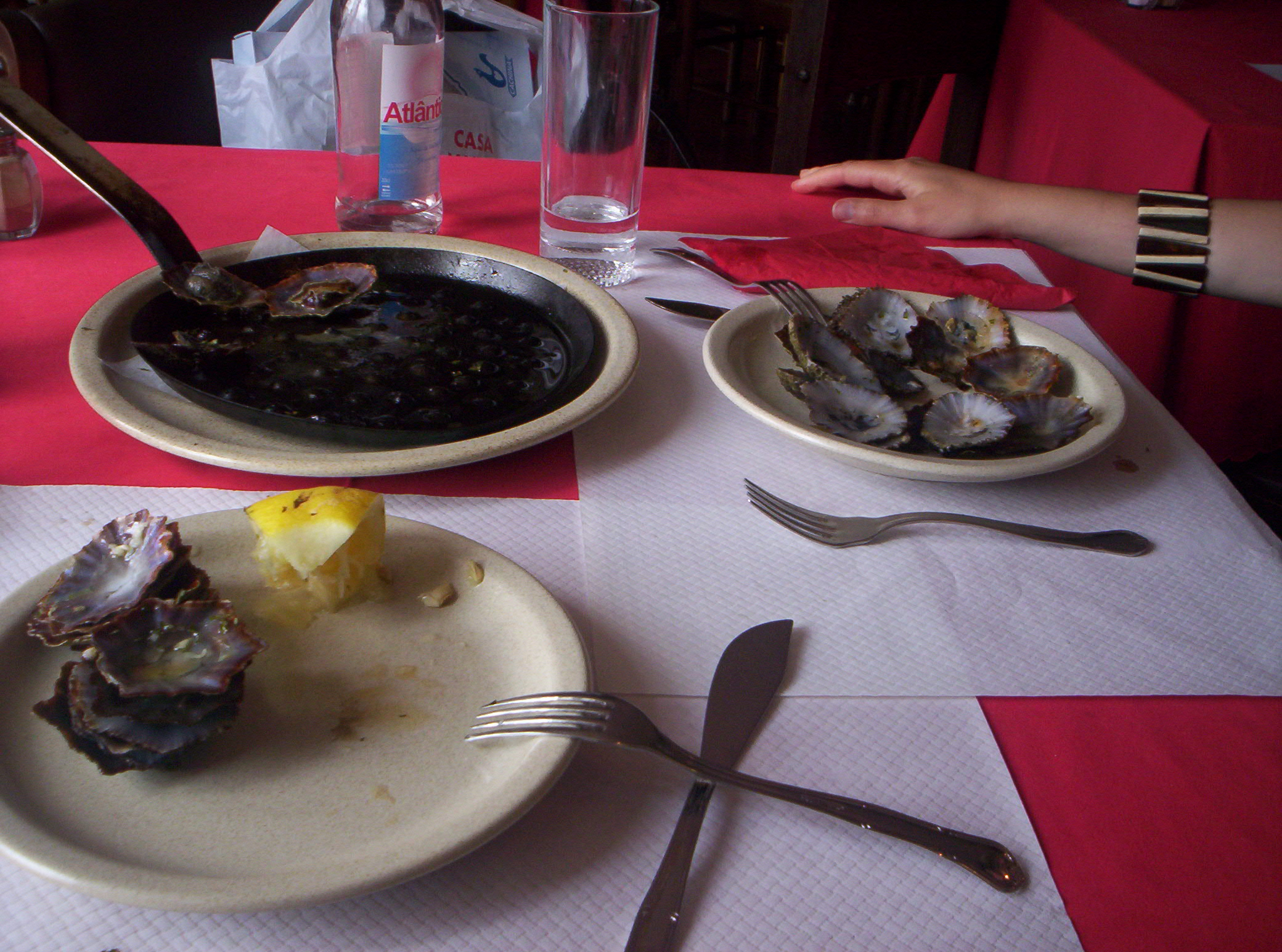 "Lapas grelhadas", a portuguese dish from the Madeira islands, photographed in Porto Santo.